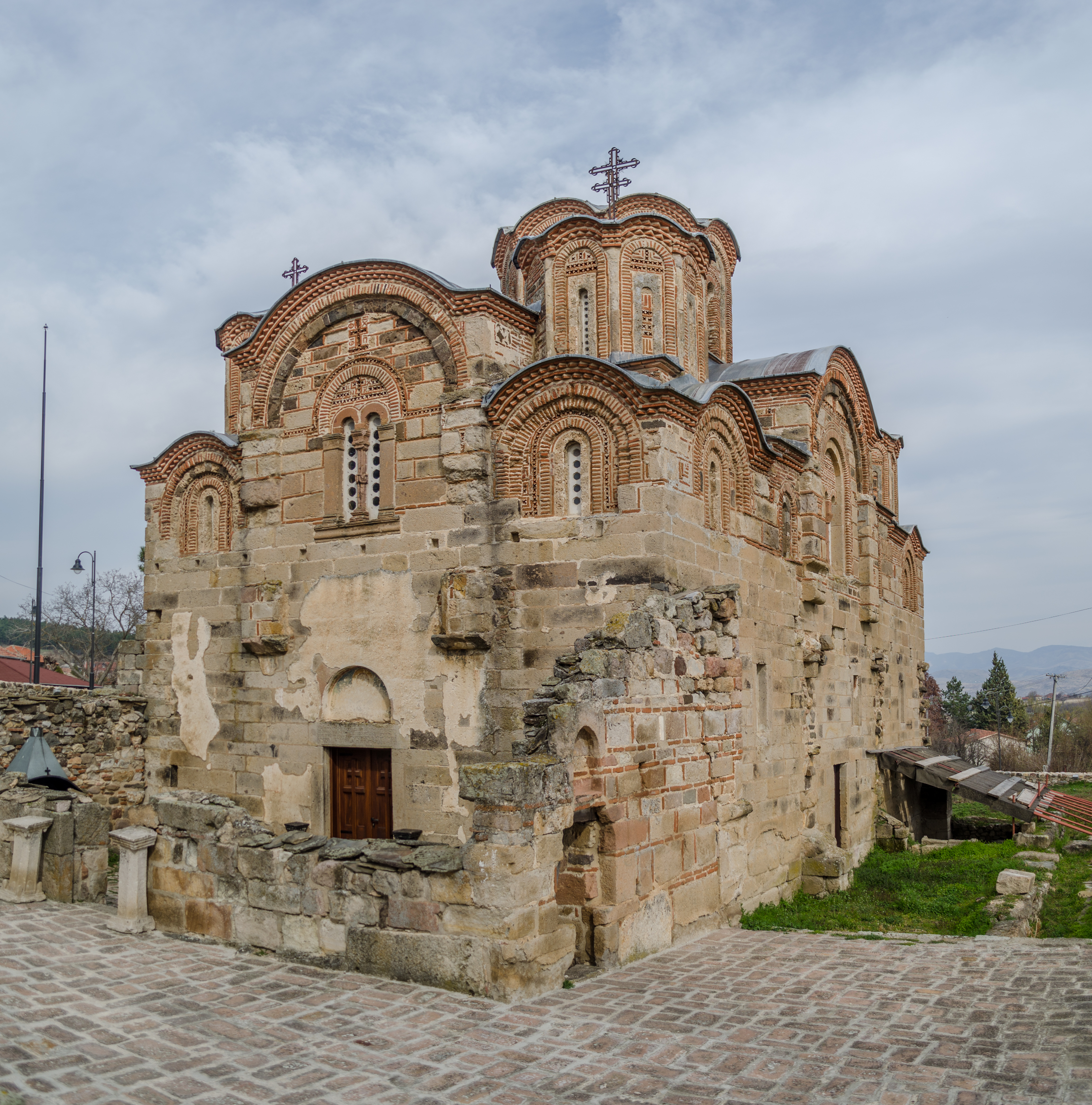 St. George's Church in the village Staro Nagoričane, Macedonia